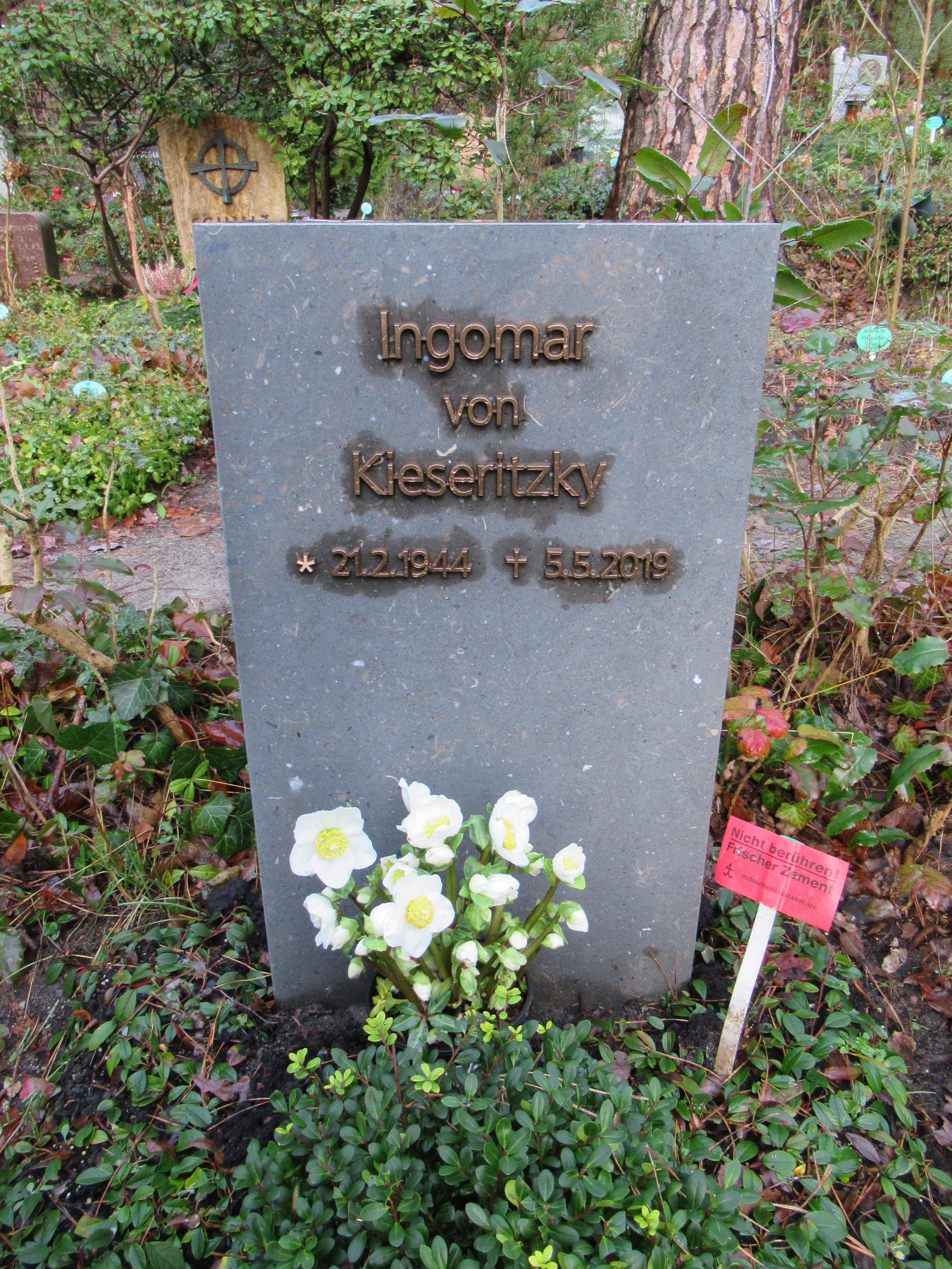 Grave of German writer Ingomar von Kieseritzky at Friedhof Heerstraße in Berlin-Westend